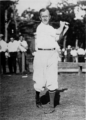 Scottish-American golfer Gilbert Nicholls (1878-1950)